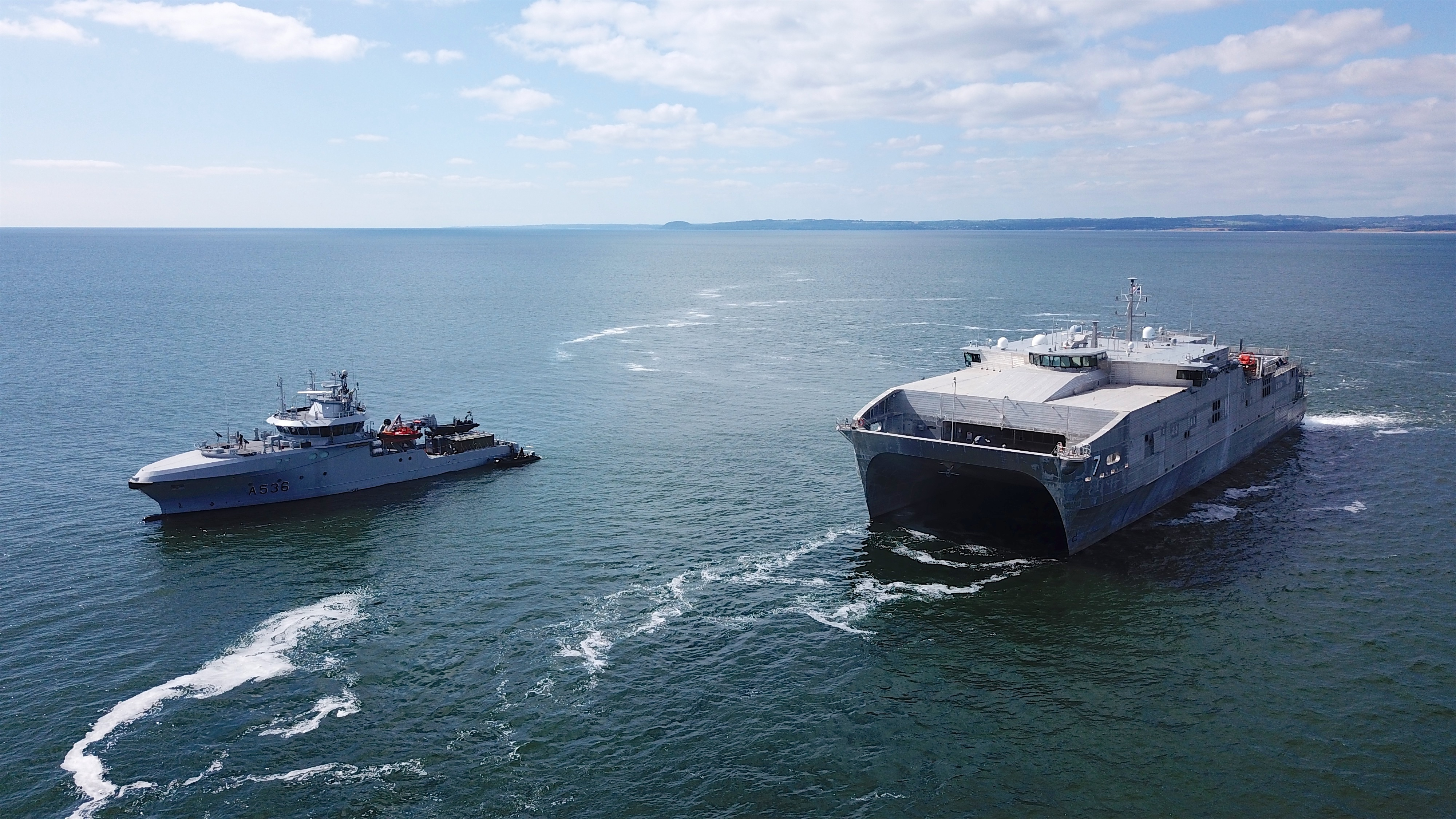 180611-N-PF515-002 RAVLUNDA, Sweden (June 11, 2018) The Spearhead-class expeditionary fast transport ship USNS Carson City (T-EPF 7), right, maneuvers alongside Norwegian vessel Olav Tryggvason during BALTOPS 2018. (U.S. Navy photo by Kaley Turfitt/Released)